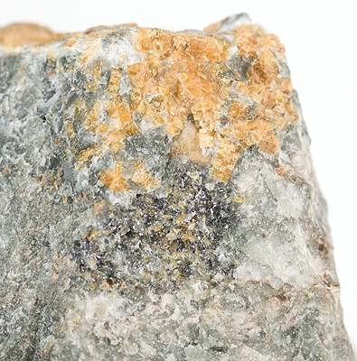 Narsarsukite Locality: Whitlash, Liberty County, Montana, USA (Locality at ) Size: 5.6 x 5.4 x 5.1 cm. An interesting locality reference specimen of massive embedded bits in matrix, of this rare species. Ex. Academy of Natural Sciences Philadelphia Collection.